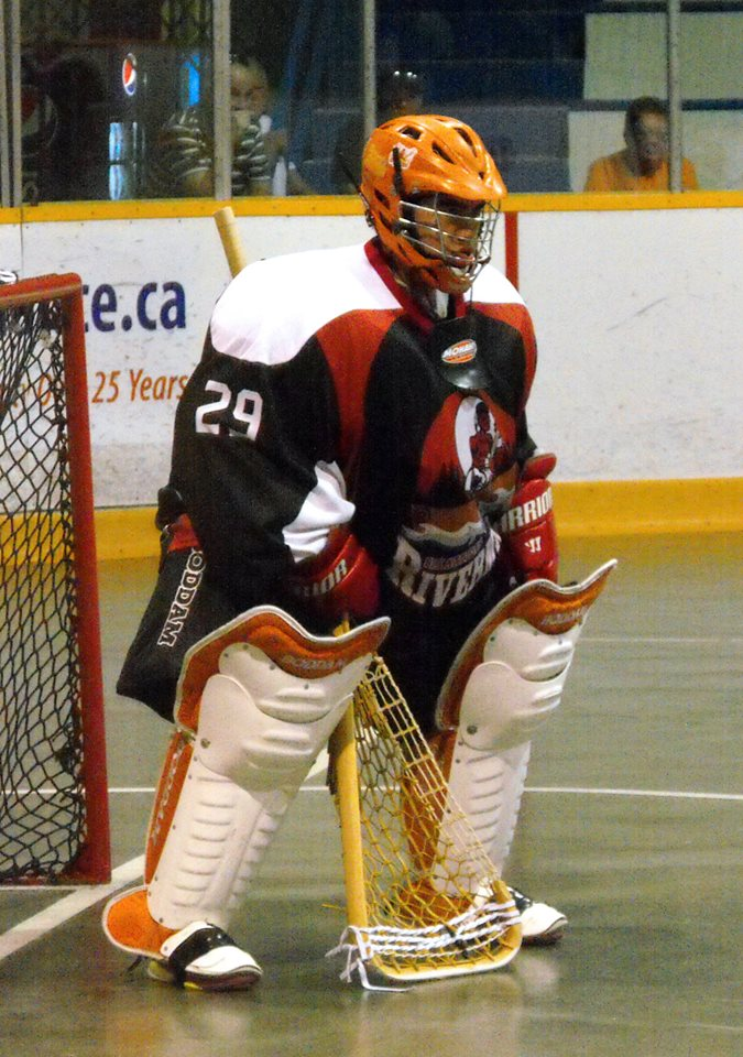 These images of Ontario Senior B Lacrosse Action action during the 2014 season are taken by Devan Mighton.